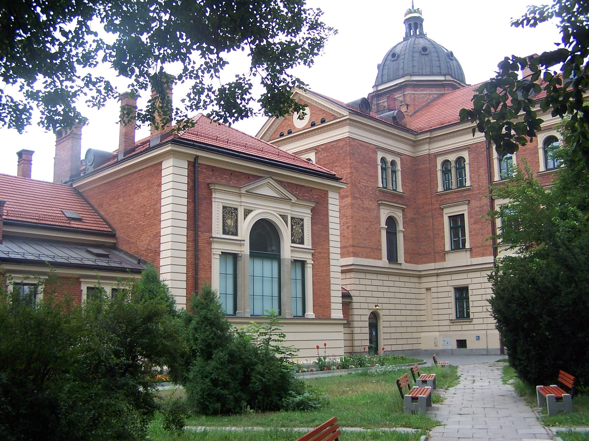 Photo by Piotrus. Academy of Economics in Kraków. Main building - from the back, right side.